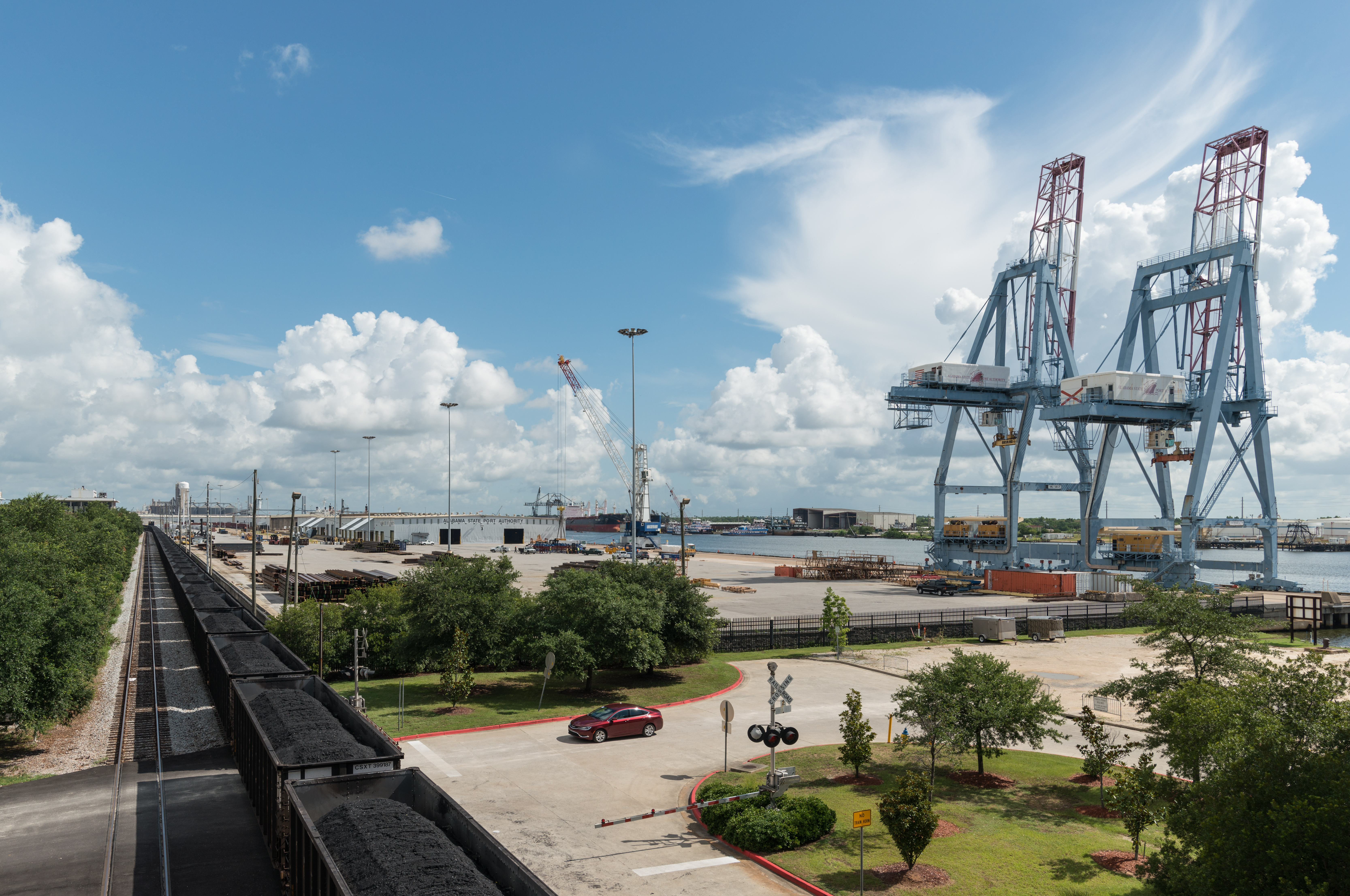 A south view of the Port of Mobile, as seen from the Convention Center